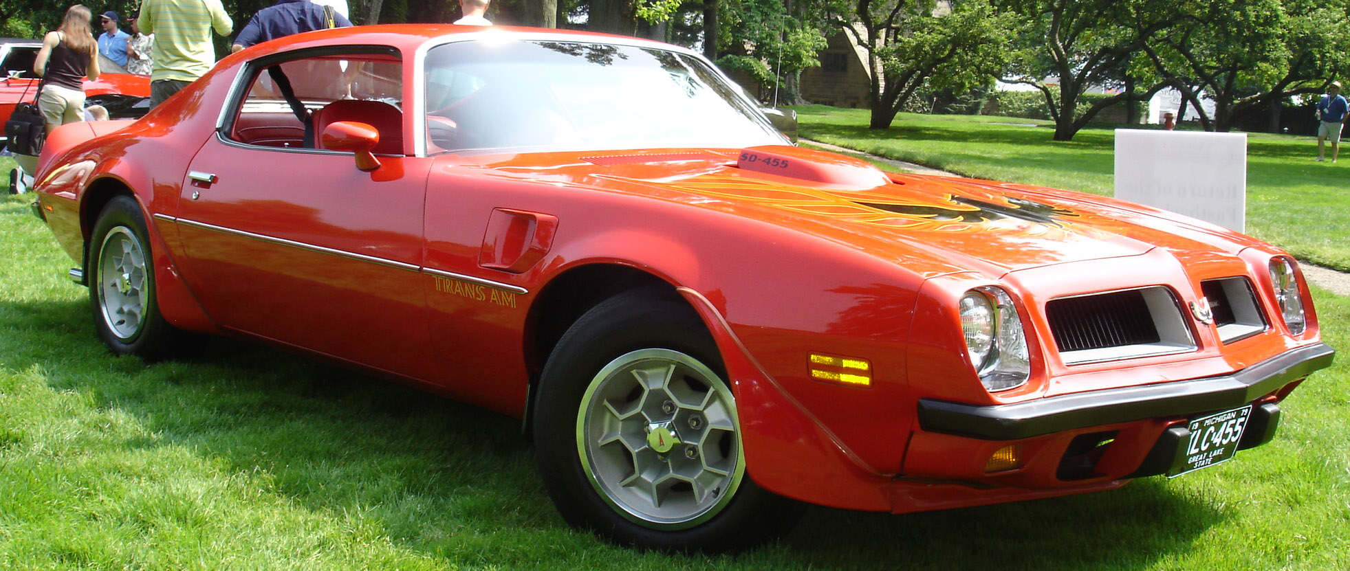 Pontiac Trans Am